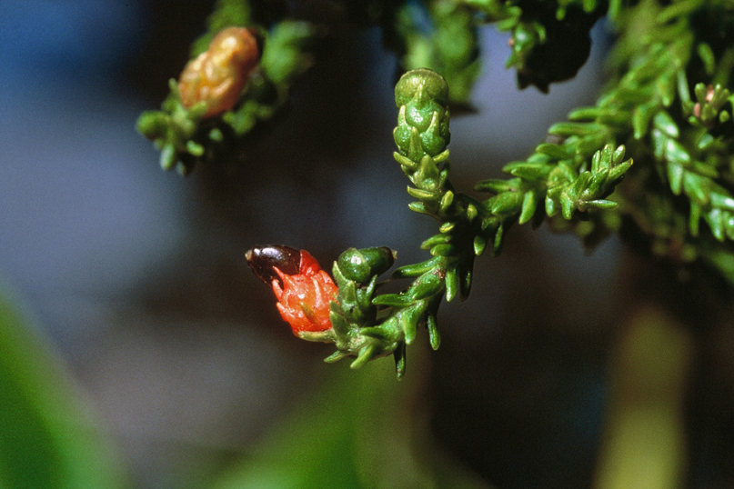 Ripe cone of a Rimu Dacrydium cupressinum, New Zealand. Photo: Don Merton, 2002.